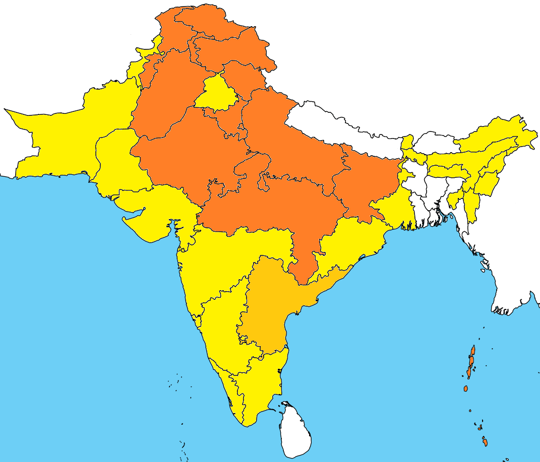 Areas where Hindi or Urdu is the official language. Provincial/state level Secondary provincial/state language National level